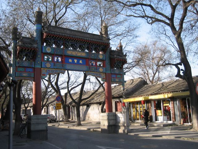 The Guozijian Street (formerly known as Chengxian Street) in Beijing